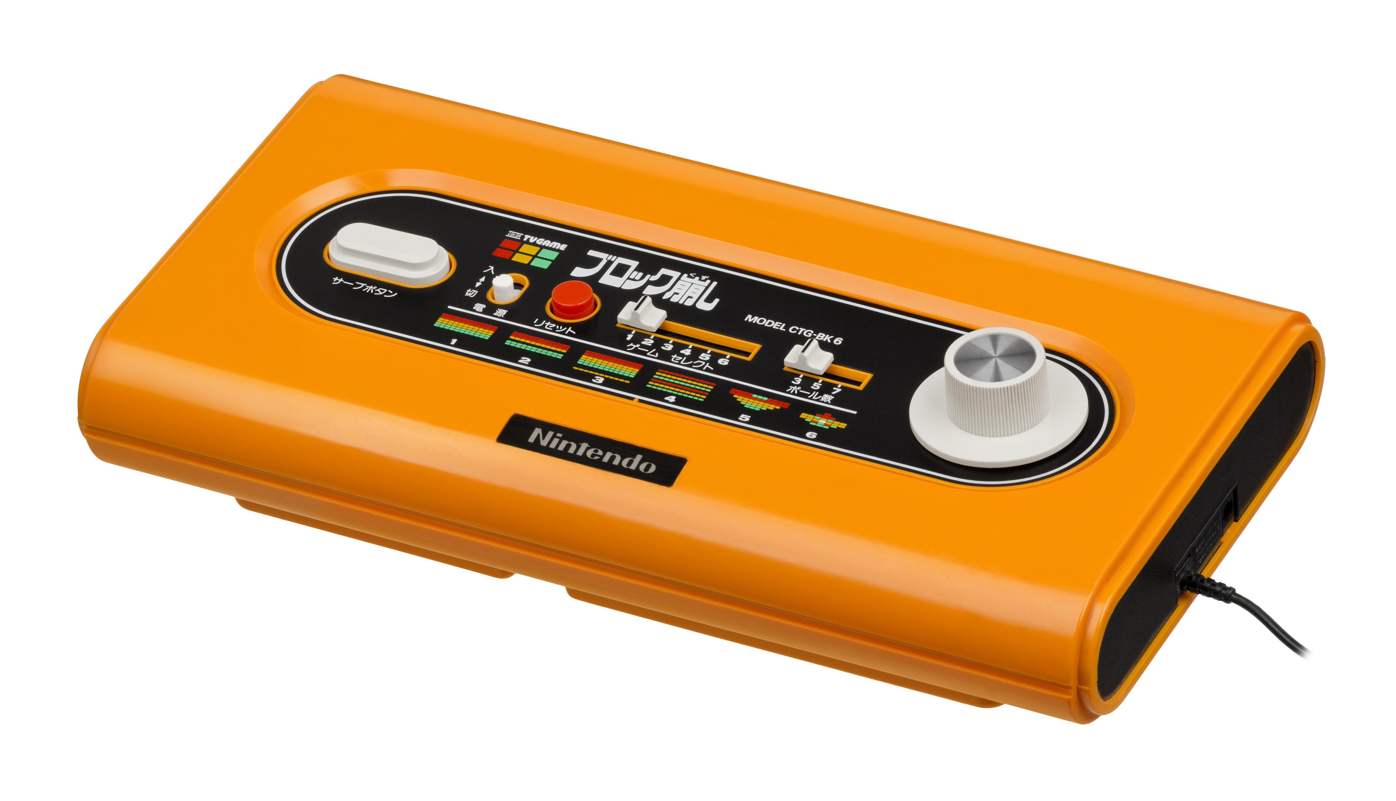 The Nintendo Color TV Games Blockbreaker (Karā Terebi-Gēmu Burokku Kuzushi), a dedicated game system that plays a Breakout copycat. Released in Japan in 1979, the model number is CTG-BK6.